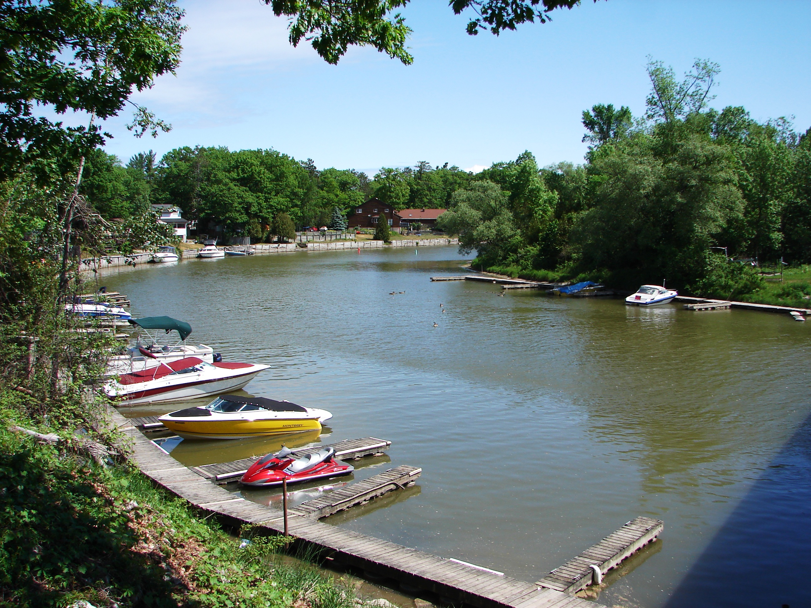 Nottawasaga River in Town of Wasaga Beach, Ontario, Canada